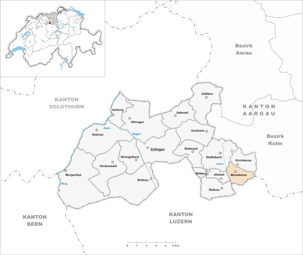 Municipality Moosleerau